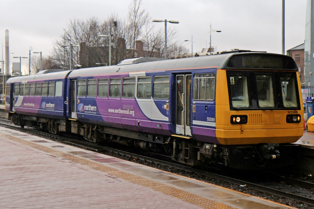 Northern Rail Class 142, 142048, St. Helens Central railway station